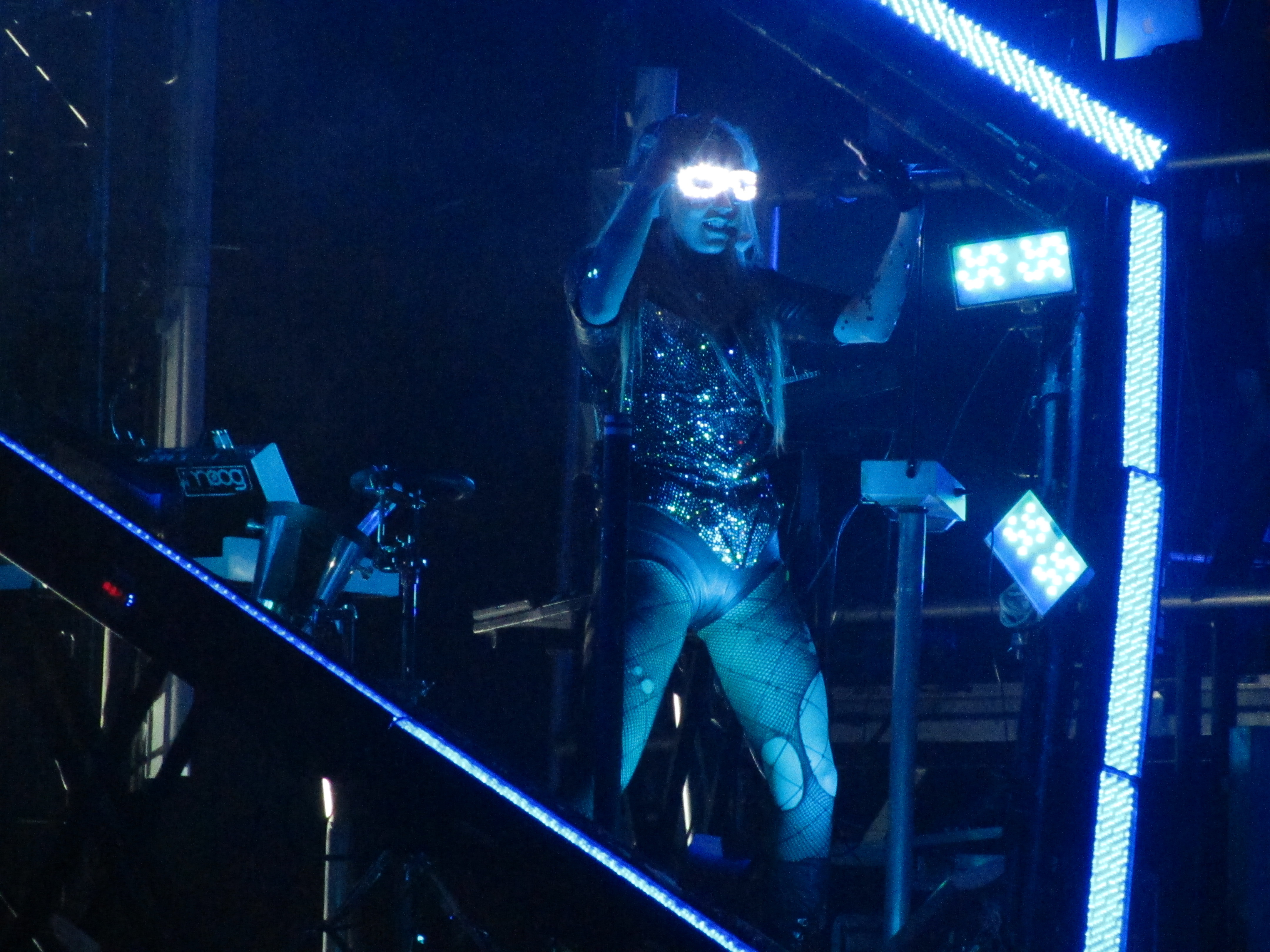 Kesha performing at Nikon at Jones Beach Theater in Wantagh, August 2011